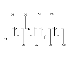 D-type register